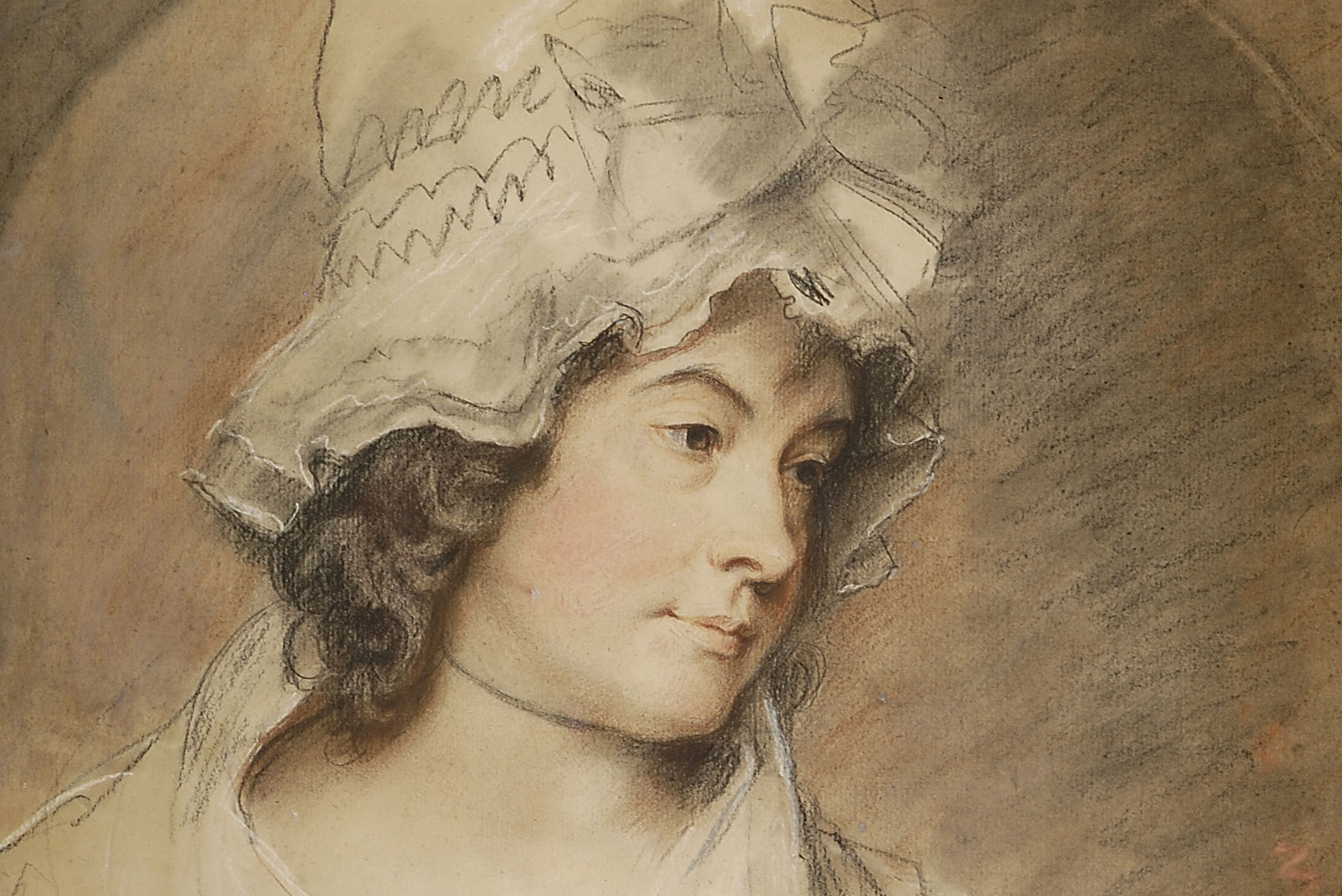 Depicted person: Charlotte Turner Smith – English Romantic poet and novelist